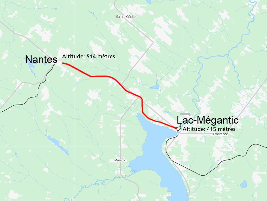 Highlighted path of the train from nantes to lac-megantic. Map from